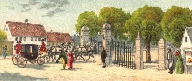 The Iron Gate (Danish: Jernporten) at the beginning of Frederiksberg Allé in Copenhagen, Denmark.